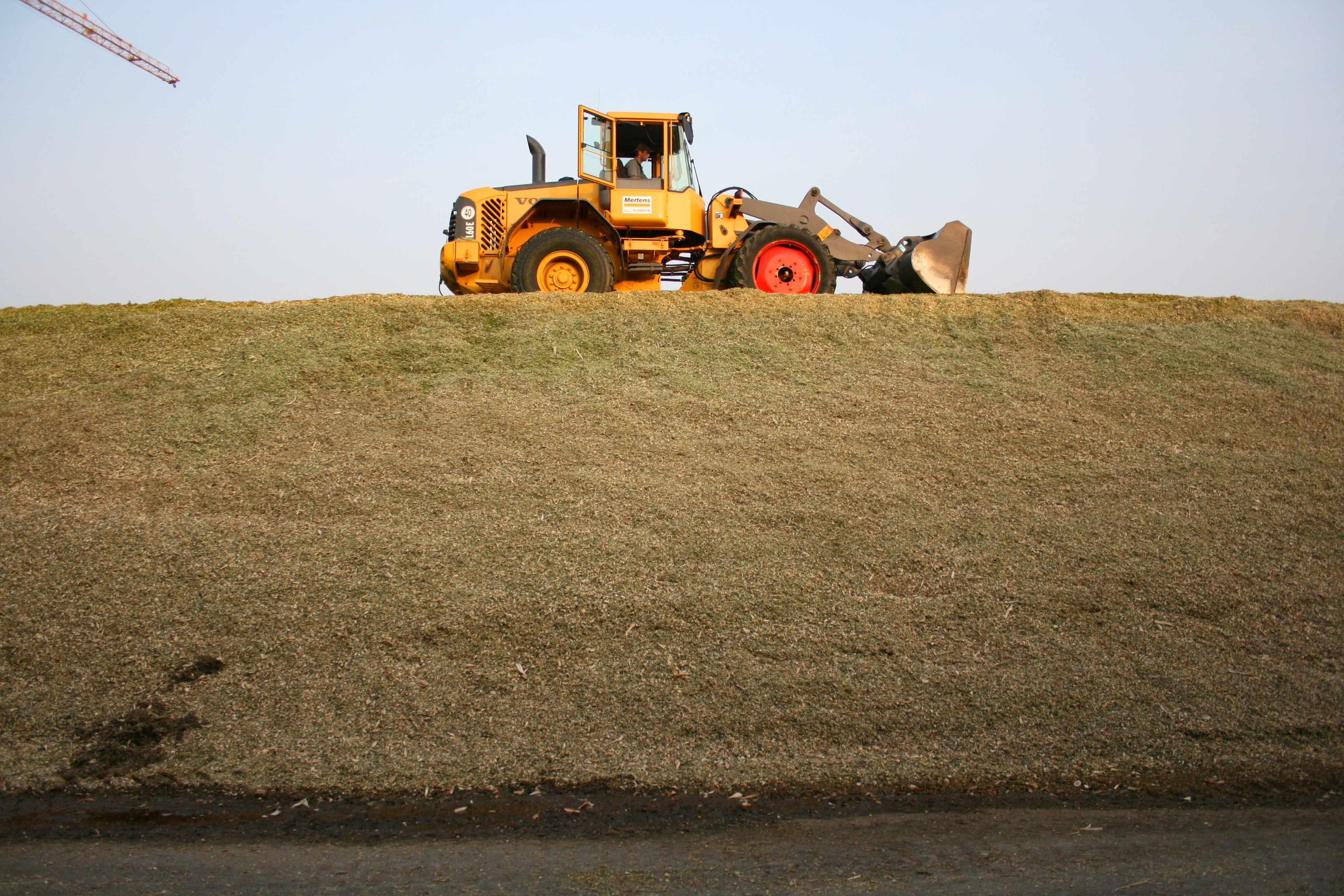 Maize silage in Sonsbeck, making silage of chopped maize plants in order to have fodder in winter.